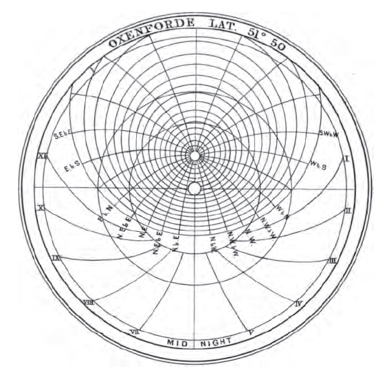 This is a representation of THE PLATE UNDER THE RETE of Chaucer's astrolabe